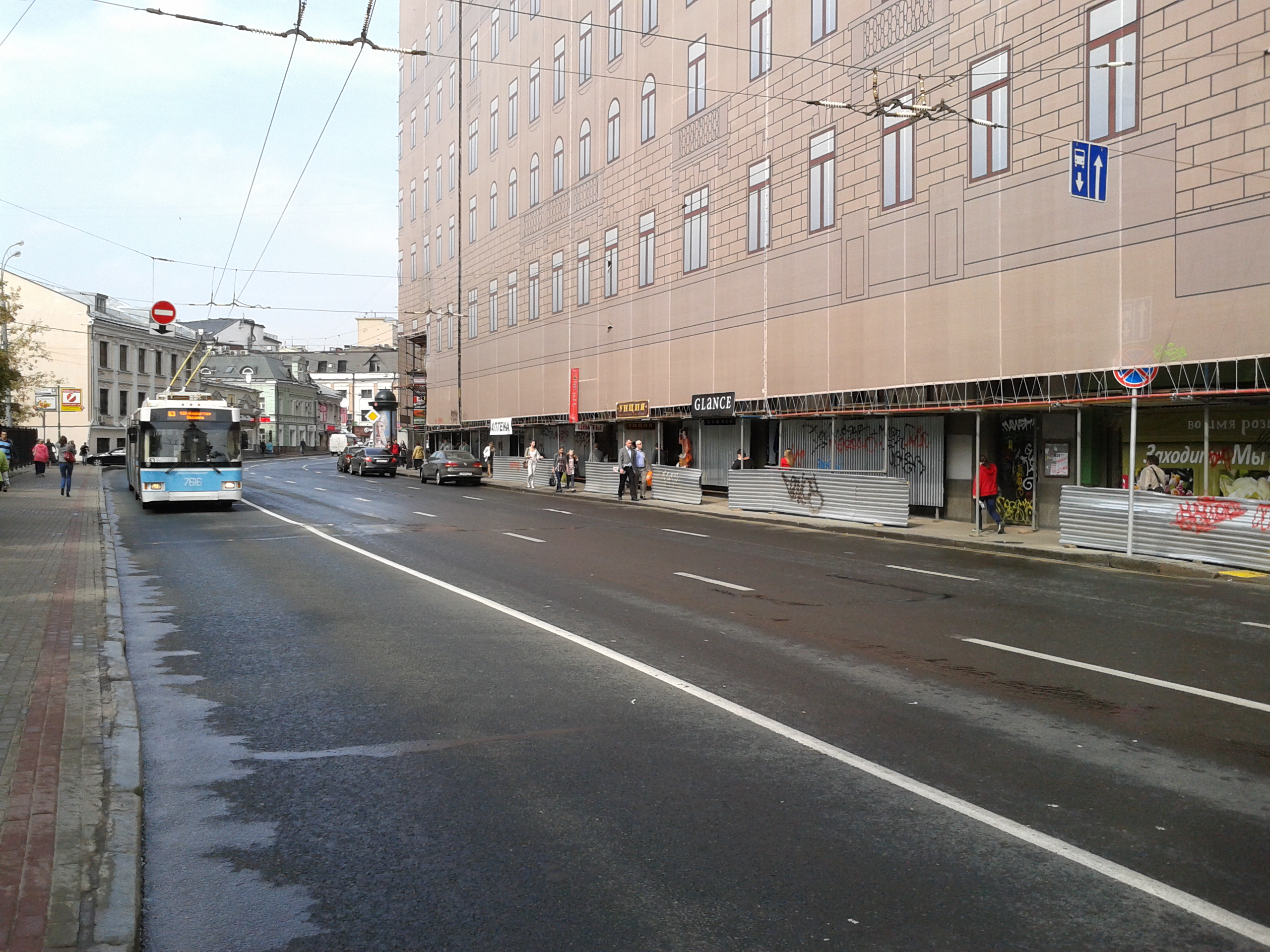 Bus lane on Solyanka street in Moscow, Russia at august of 2013 year.